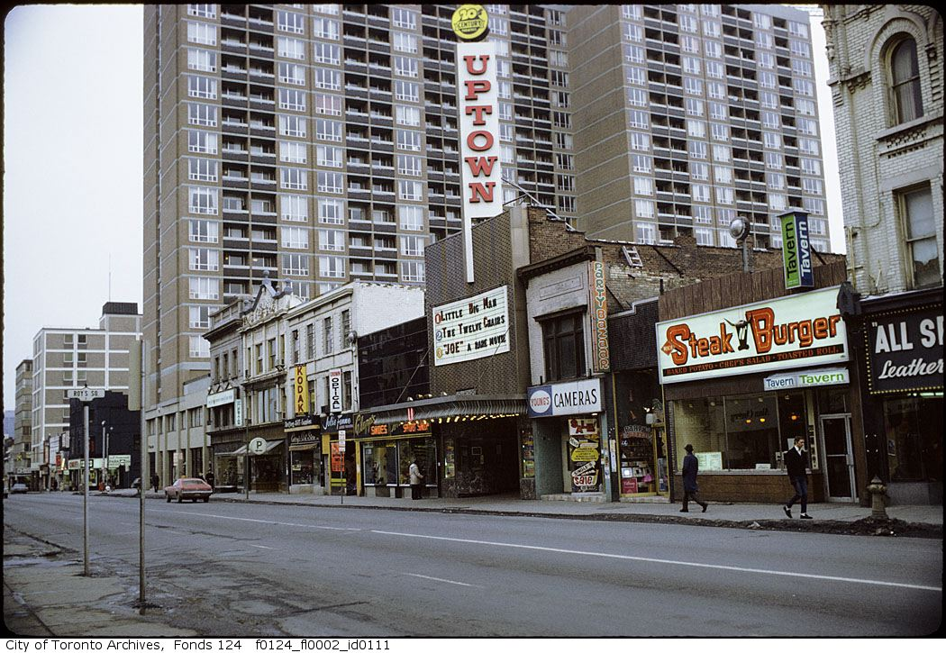 Photographer: Ellis Wiley ca. 1966-1972 City of Toronto Archives Fonds 124, File 2